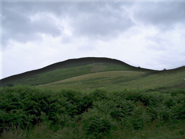 Moel Arthur. Moel Arthur is one of a chain of mountains which forms the Clwydian Range. Six of these, including Moel Arthur, was the site of a hillfort.